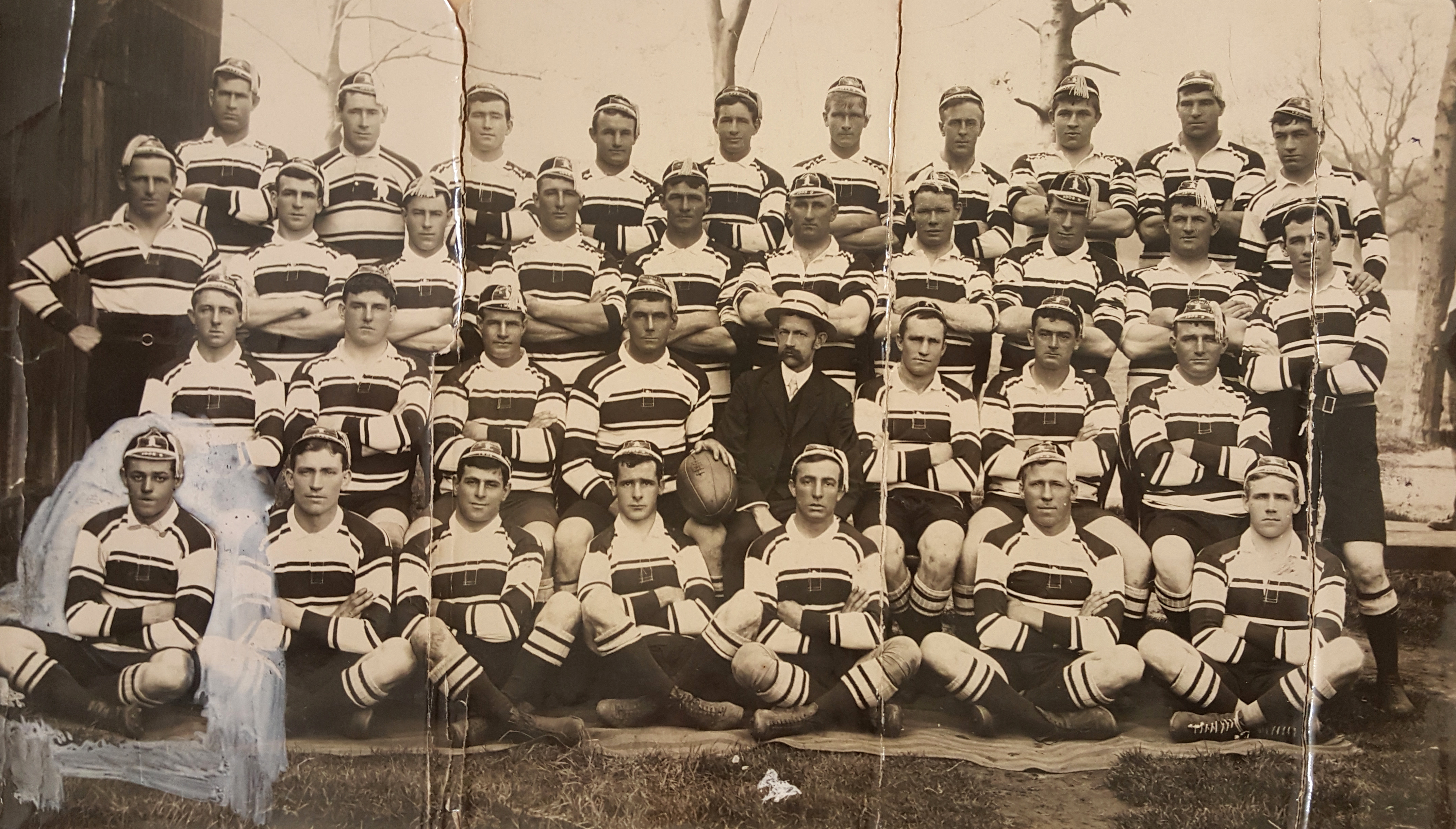 First Kangaroo team, England, 1908-09, Davis sporting collection part II, PXE 653-159, State Library of New South Wales